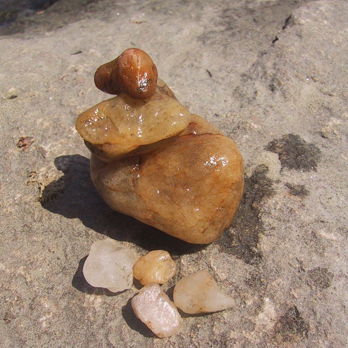 small pile of rocks from the White River in Bethel Vermont